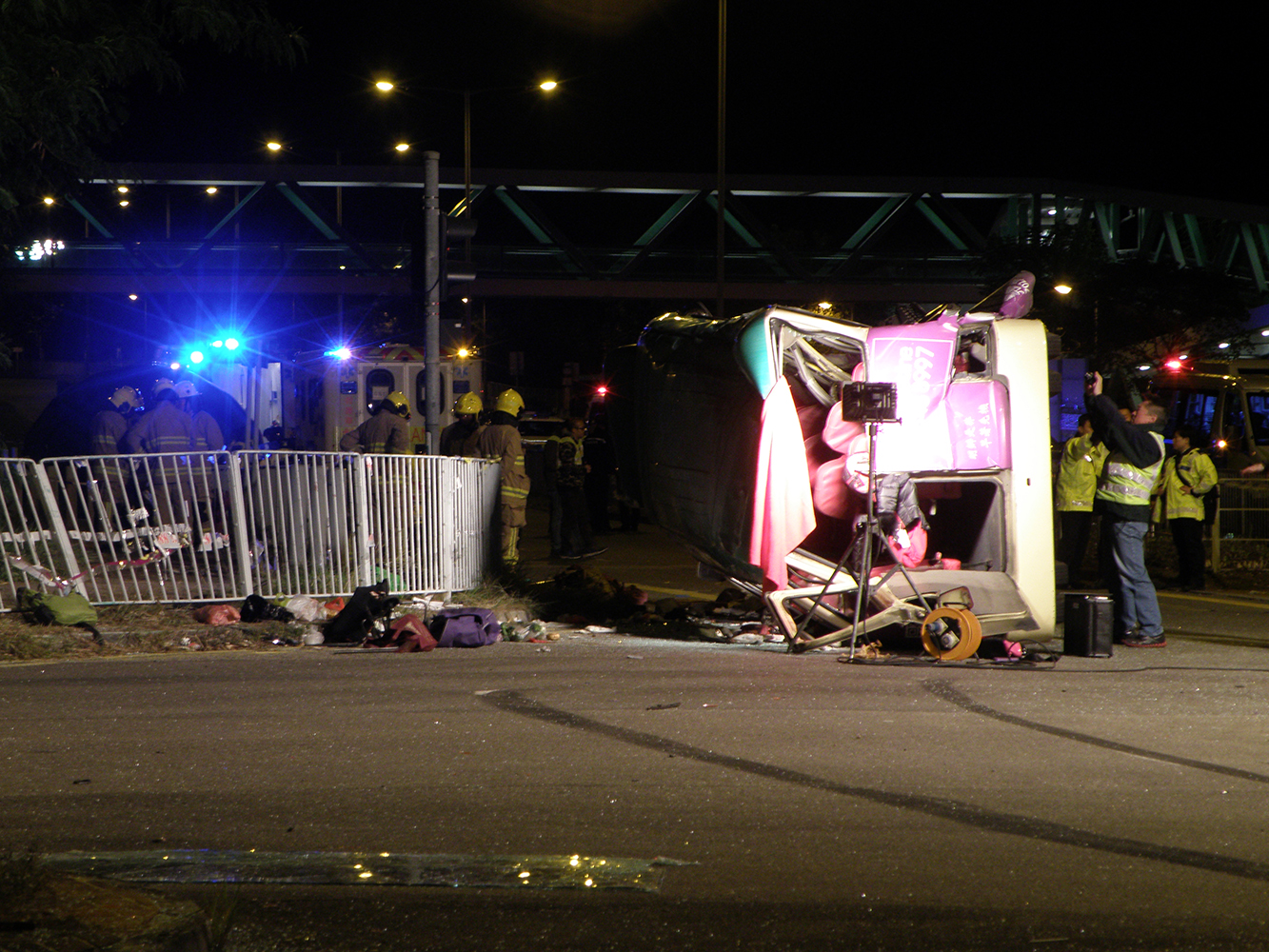 Minibus route 608 and truck collision that cause 5 died and 13 injured in Kam Tin, Hong Kong. This is the worst minibus accident in local history and the picture shows damage of minibus.